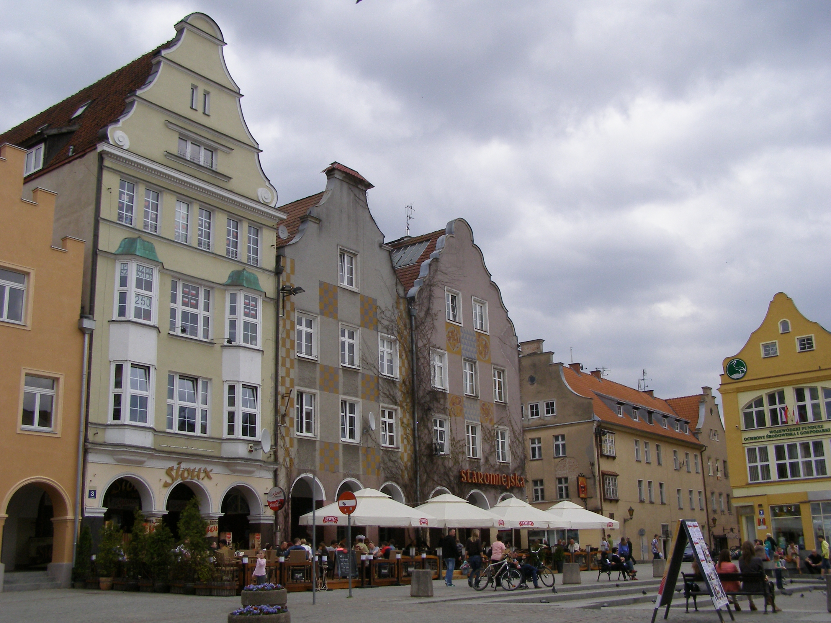 Olsztyn - Old Town